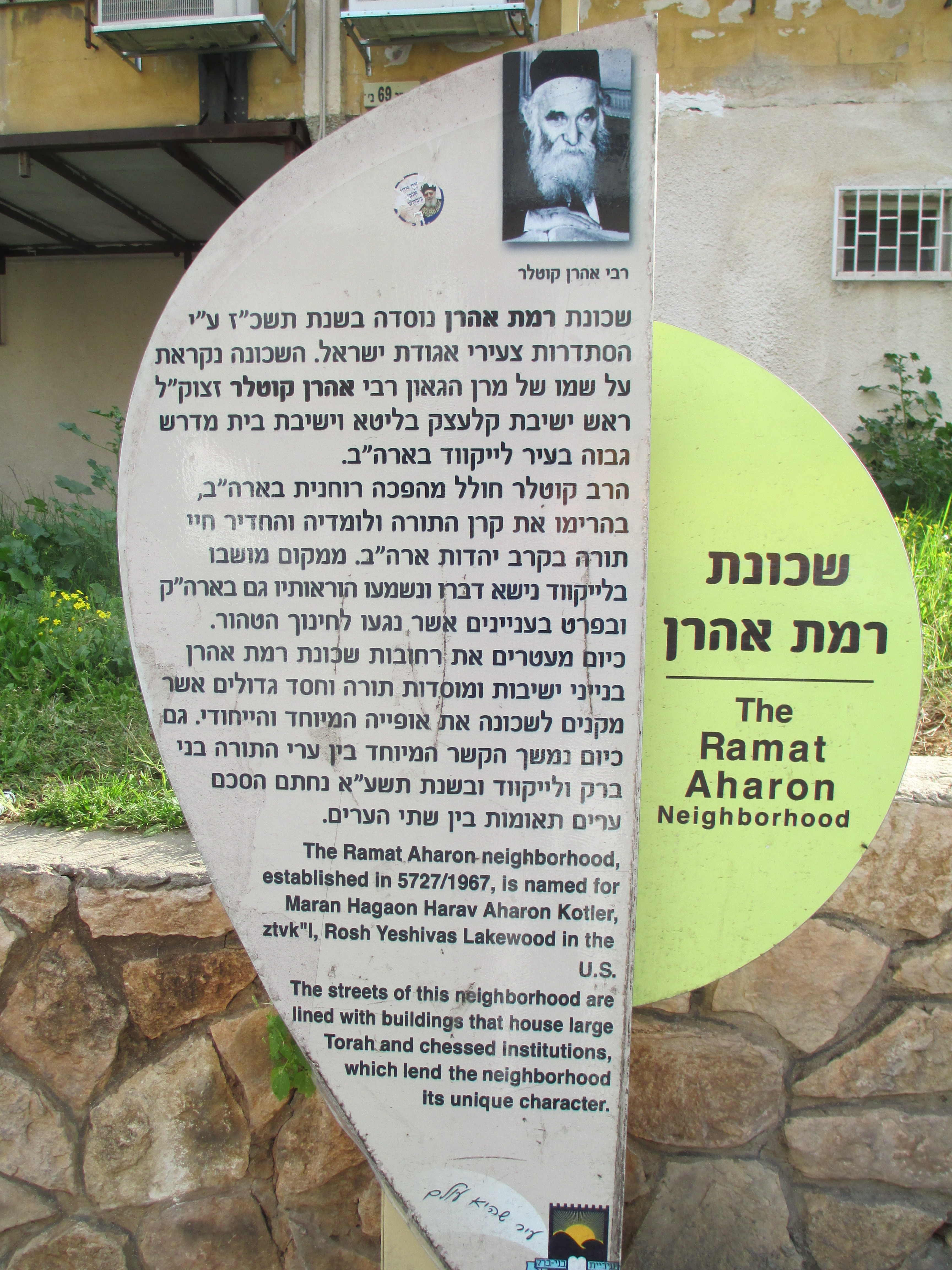 memorial plaque to rabbi aharon kotler in bnei brak, israel שלט זיכרון לרב אהרון קוטלר בשכונת רמת אהרון, רח' פוברסקי, בני ברק